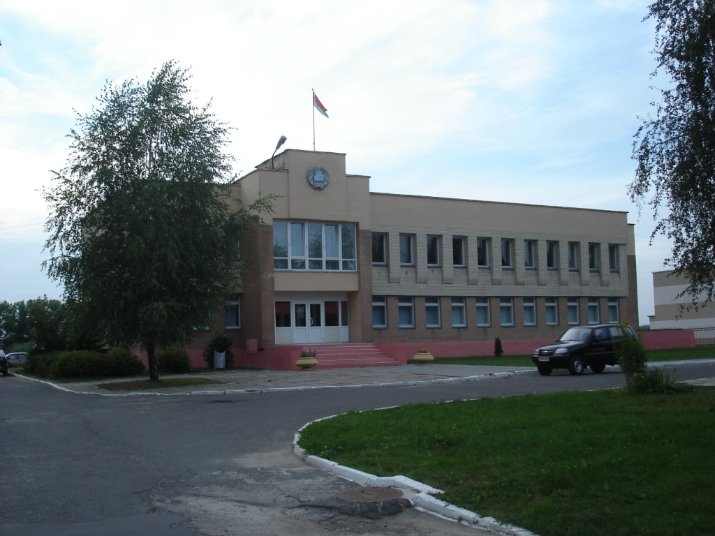 Fanipol Government building, Belarus